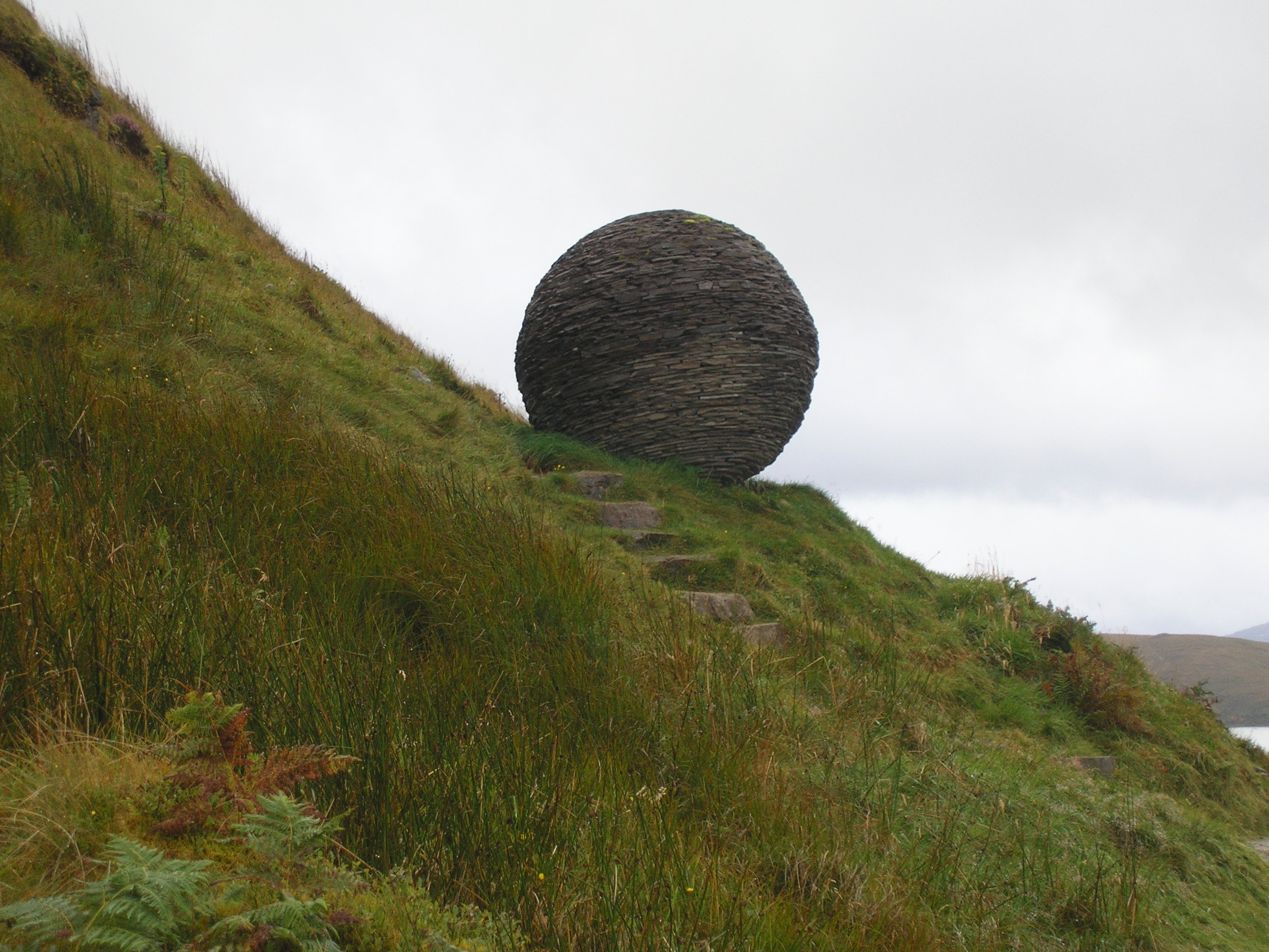 The Sphere (artwork 'The Globe' by Joe Smith) at Knockan Crag, Sutherland, Scotland.